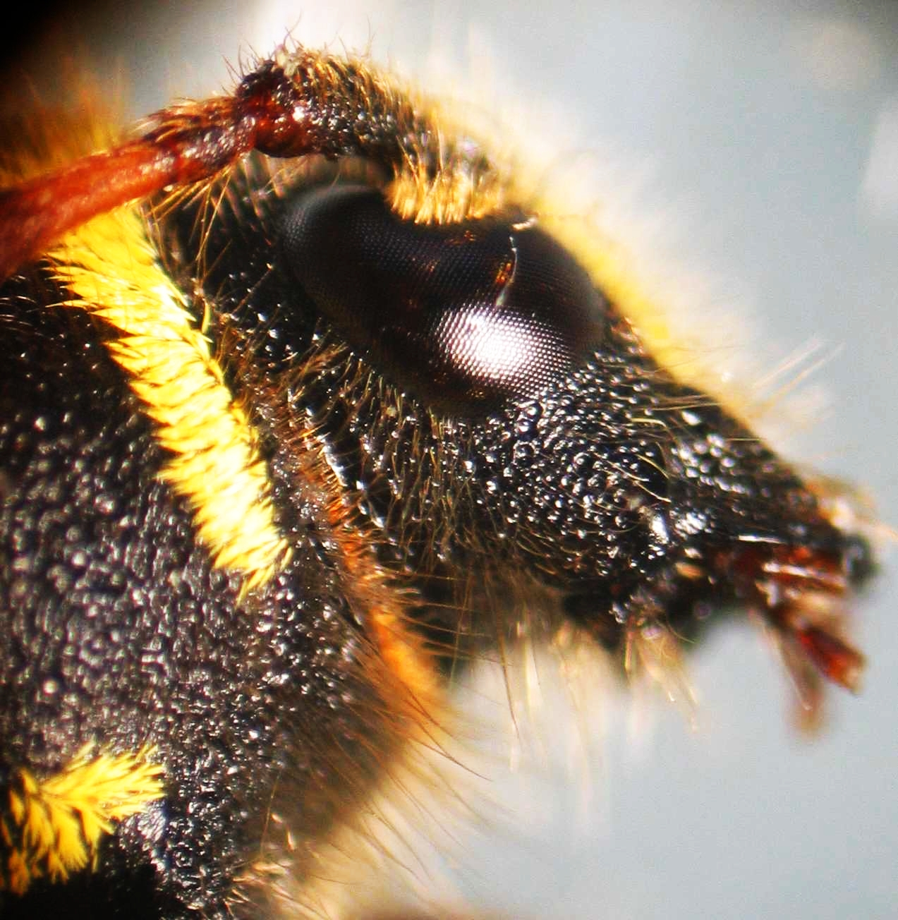 dead Clytus arietis, found in Rheda-Wiedenbrück (Germany). Image taken through a microscope